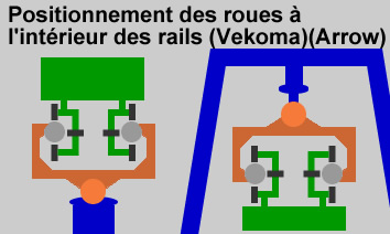 Diagram of the positioning of the wheels inside the rails on a Vekoma and Arrow rollercoaster. Drawing created by myself, Sam-Pig.